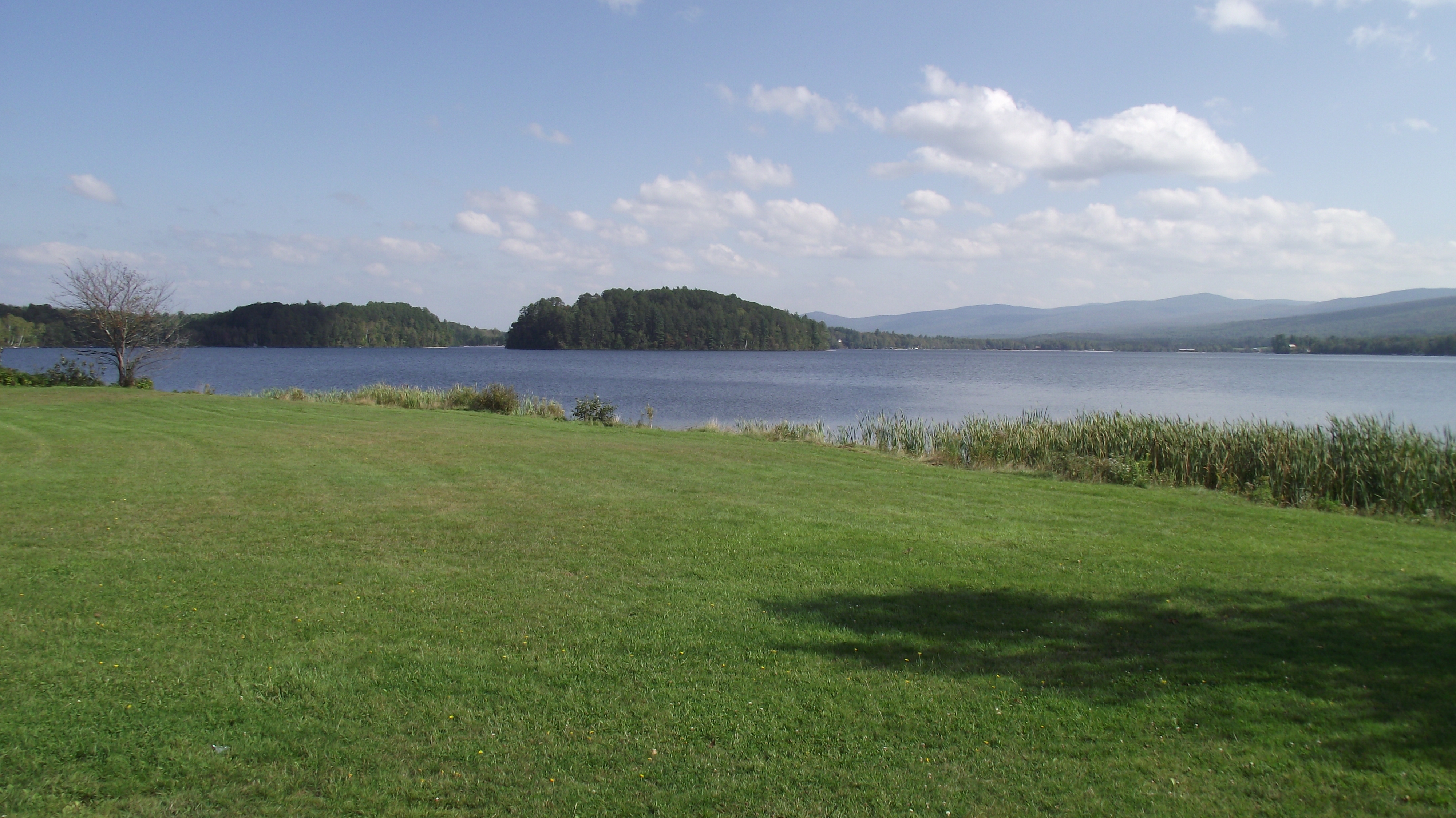 View of Island Pond, a small lake in the town of Brighton, Vermont. The adjacent village takes its name from the pond. The Abenakis called this water Menanbawk (literally, "island pond").